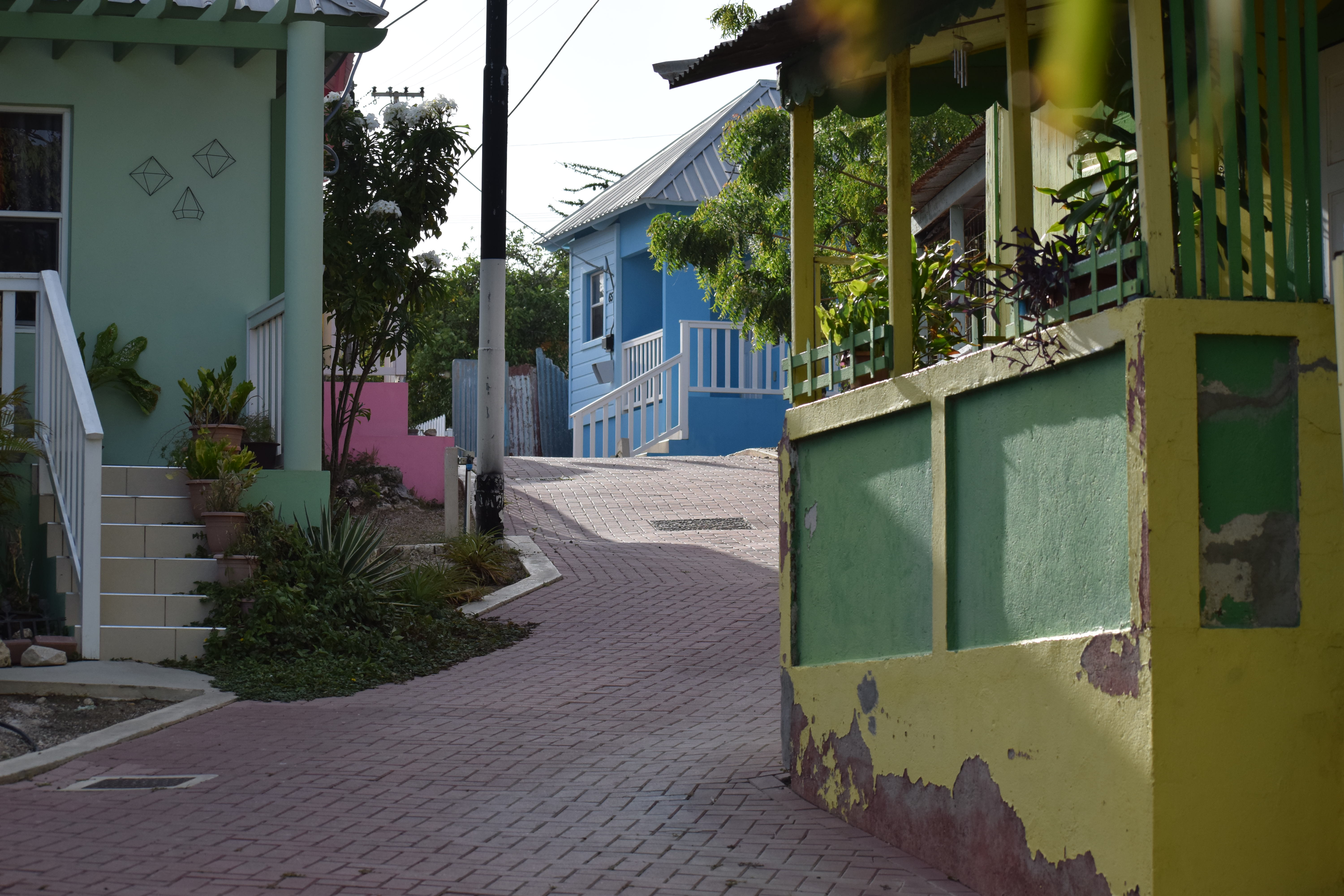 Street in Fleur de Marie area, Curaçao, Dutch West Indies